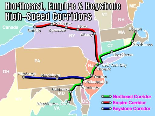 Map of Northeast, Keystone, and Empire corridors, federally designated high-speed rail corridors.